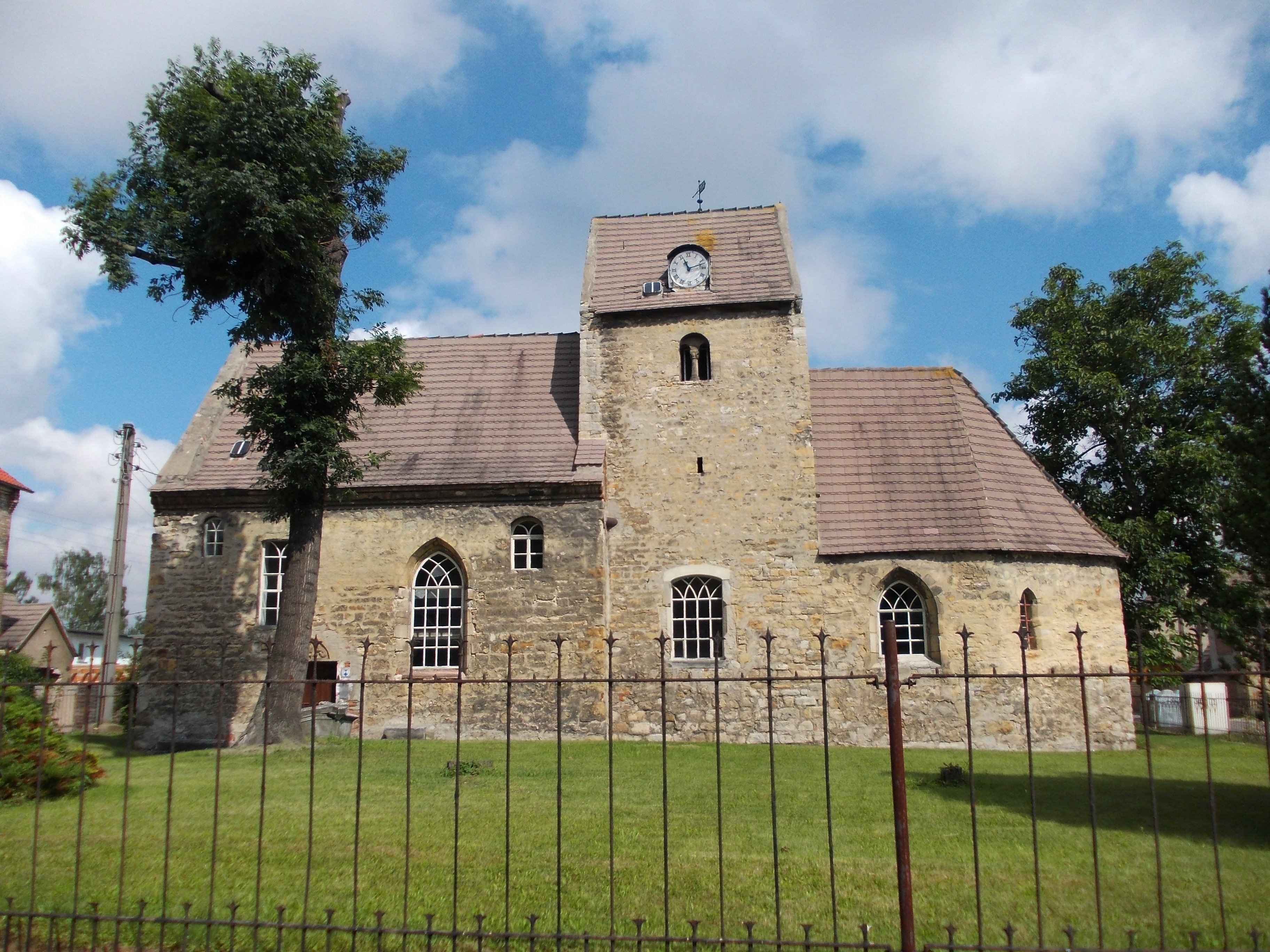 St. John's Church in Eisdorf (Teutschenthal, district of Saalekreis, Saxony-Anhalt)